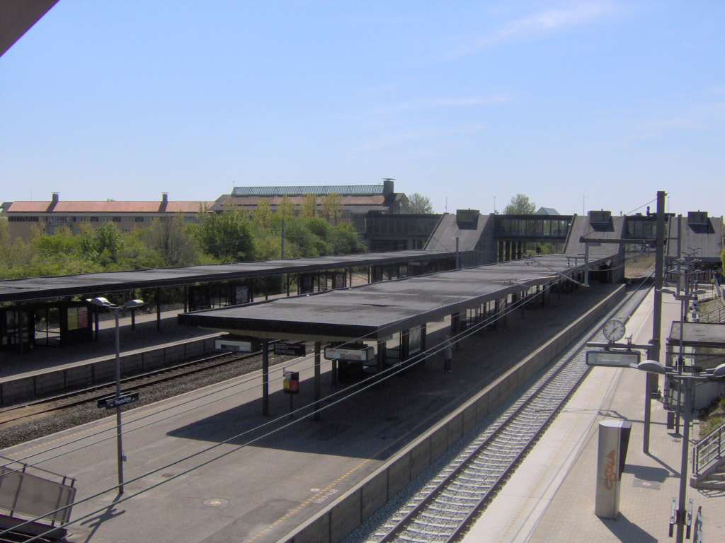 Overview of platforms at Hundige S-train station in Denmark. Photo taken from approx. 55.5985N, 12.3344E, heading ~200°